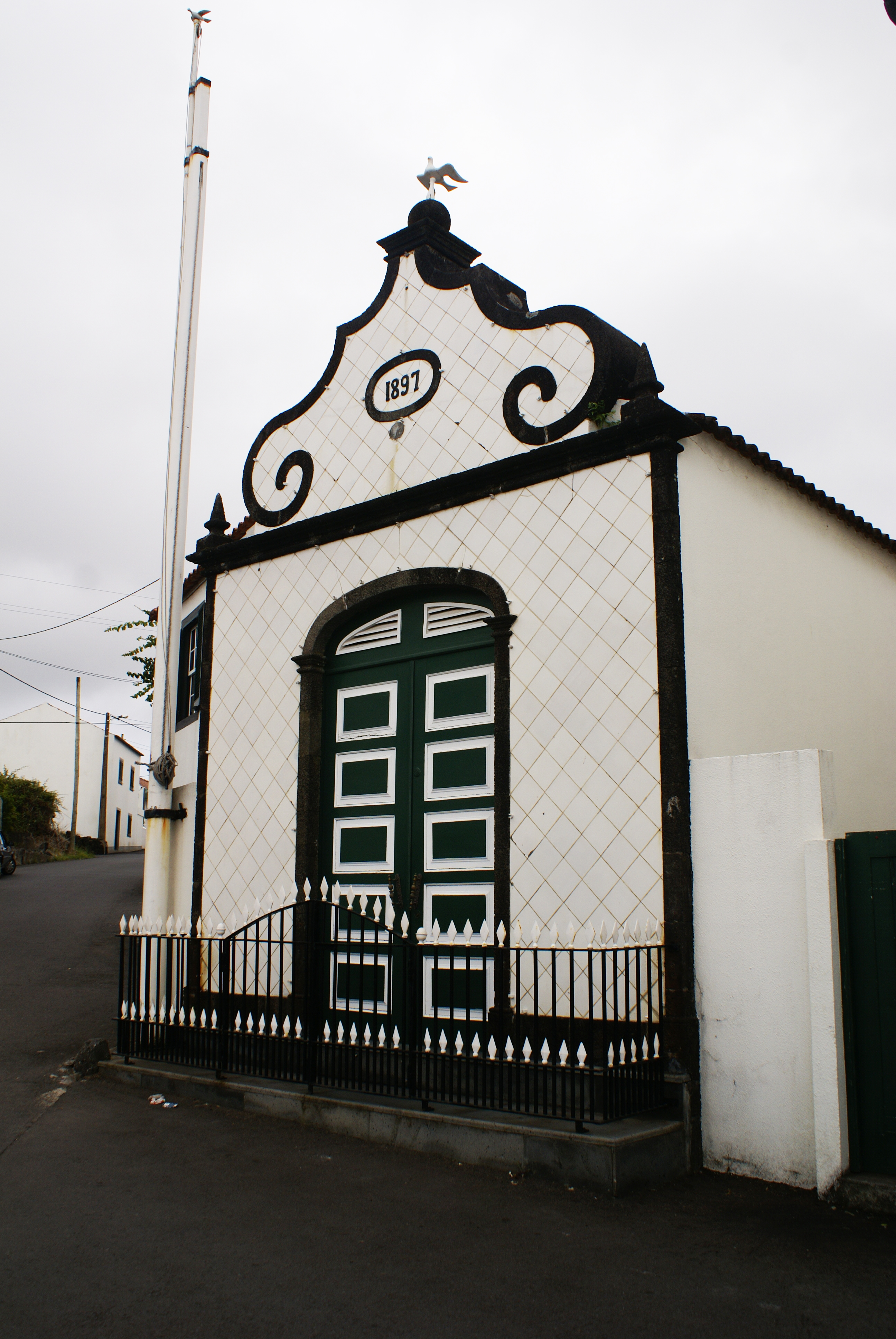 Império do Espírito Santo das Sete Cidades, concelho da Madalena, ilha do Pico, Açores, Portugal